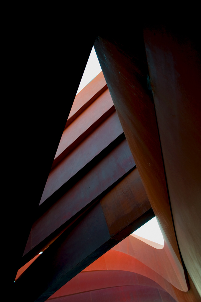 Photograph of Design Museum Holon at opening